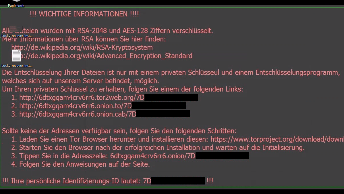 Screenshot of crypto-trojan “Locky,” February 2016; German version